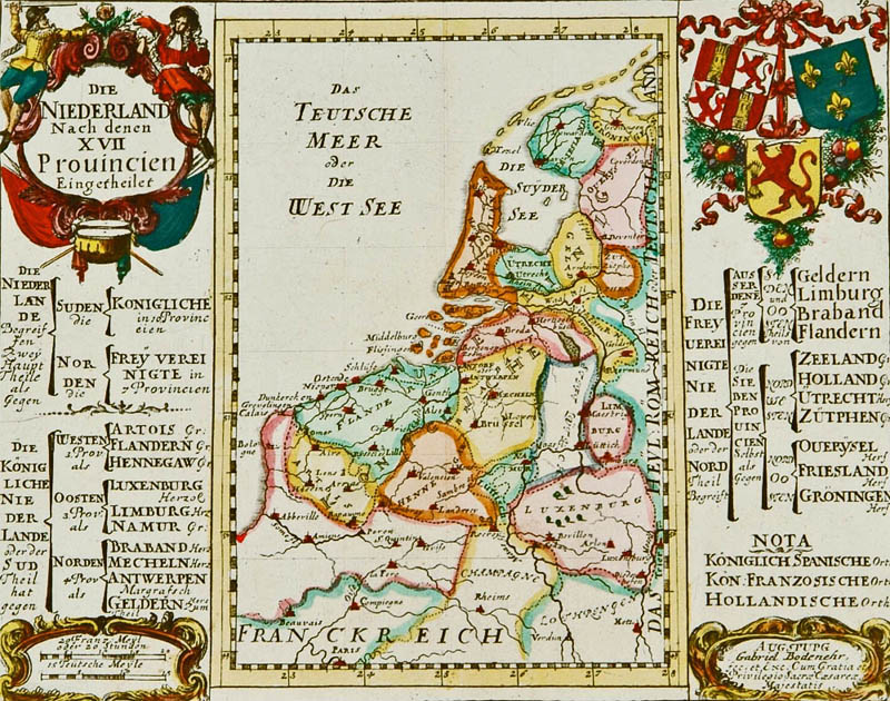 zeventeen netherlands map